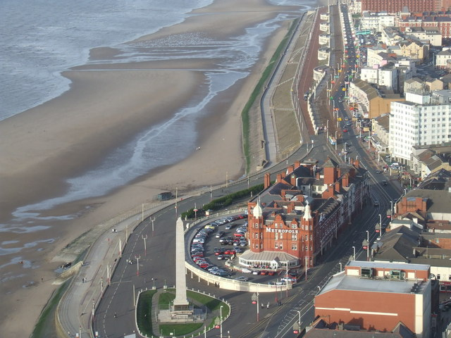 Blackpool North Shore, near to Blackpool, Great Britain. Blackpool Cenotaph, Metropole Hotel and seafront looking northwards, from the top of Blackpool Tower